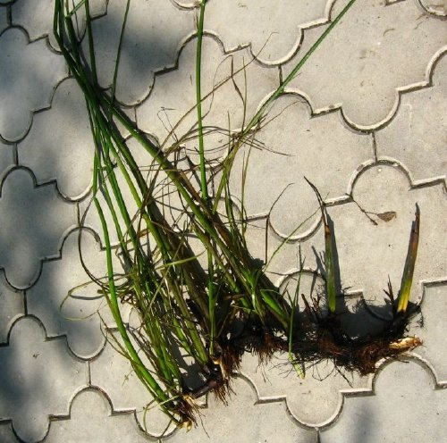 Submersed parts (rhizomes, leaves) of Schoenoplectus lacustris.